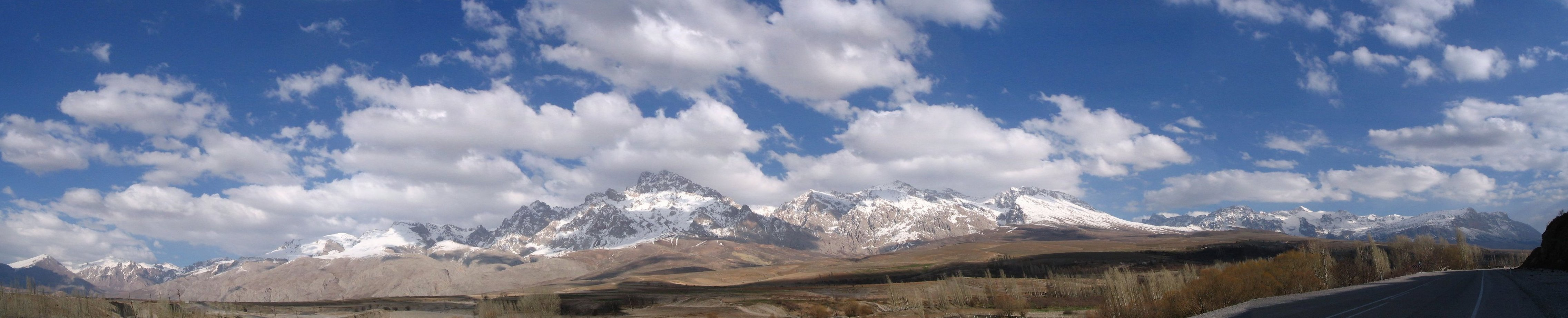 Panoramic view of Aladağlar (Ant-Taurus) range from the West side. The main peak in the center is the top of the range, Demirkazık.